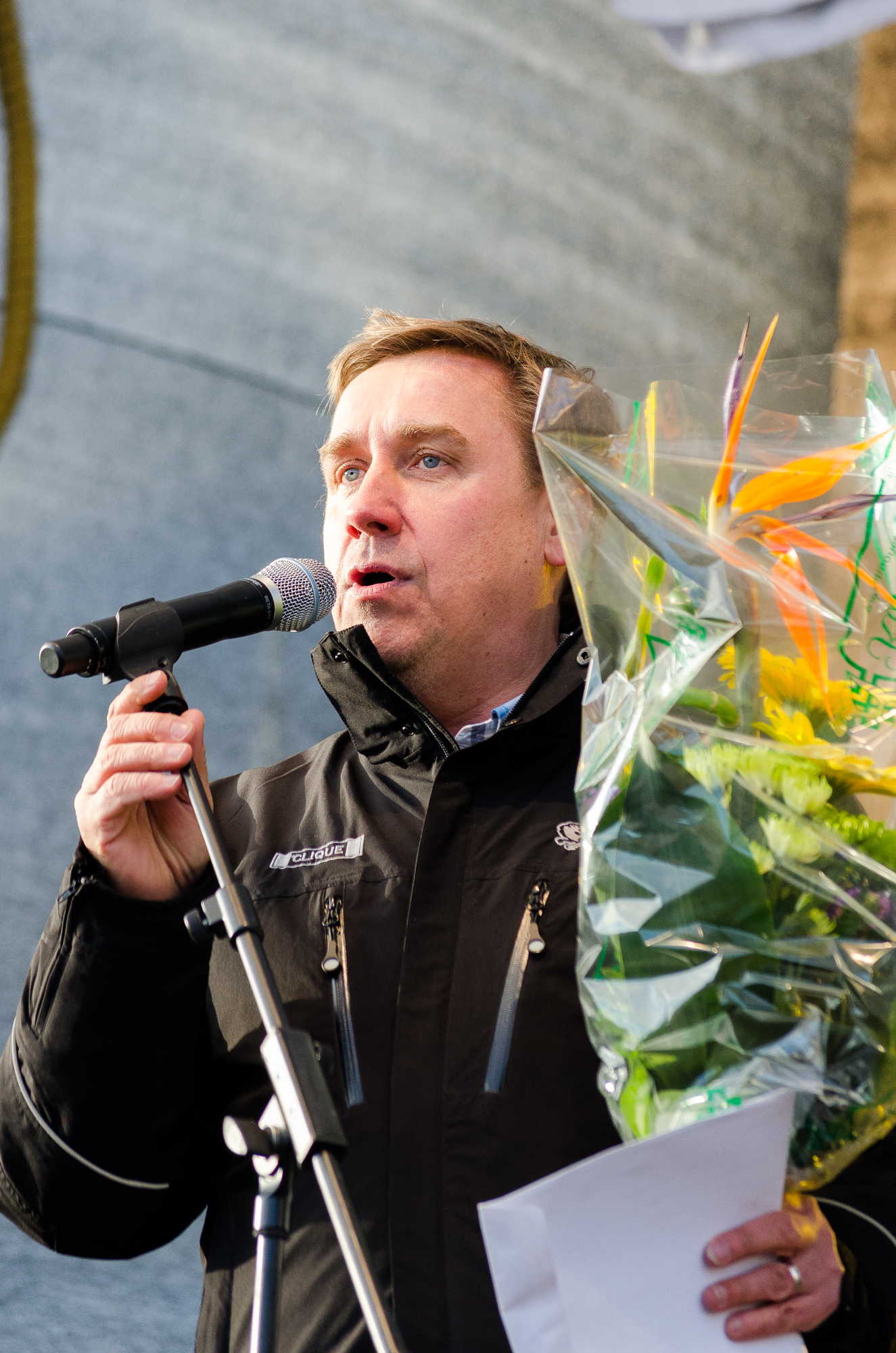 Juha Junno on 29th of April 2014.